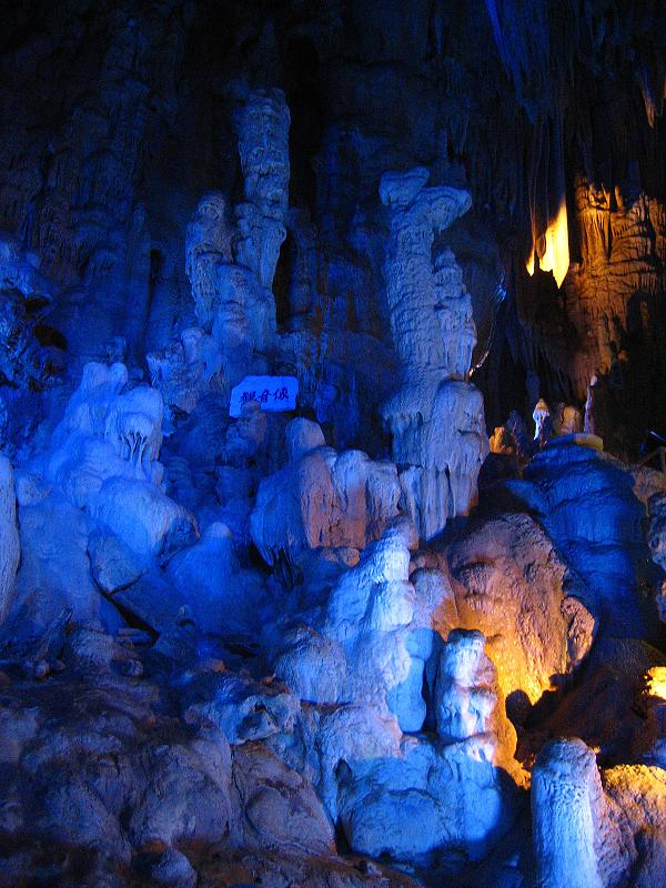 Various Speleothem, such as flowstones and mushroom rocks, in Abukuma-do Cave in Takine Town, Tamura City, Fukushima Prefecture, Japan. Picture was taken with a Canon Power Shot SD450 Digital Elph camera and modified using a Paint Shop program on a laptop computer.